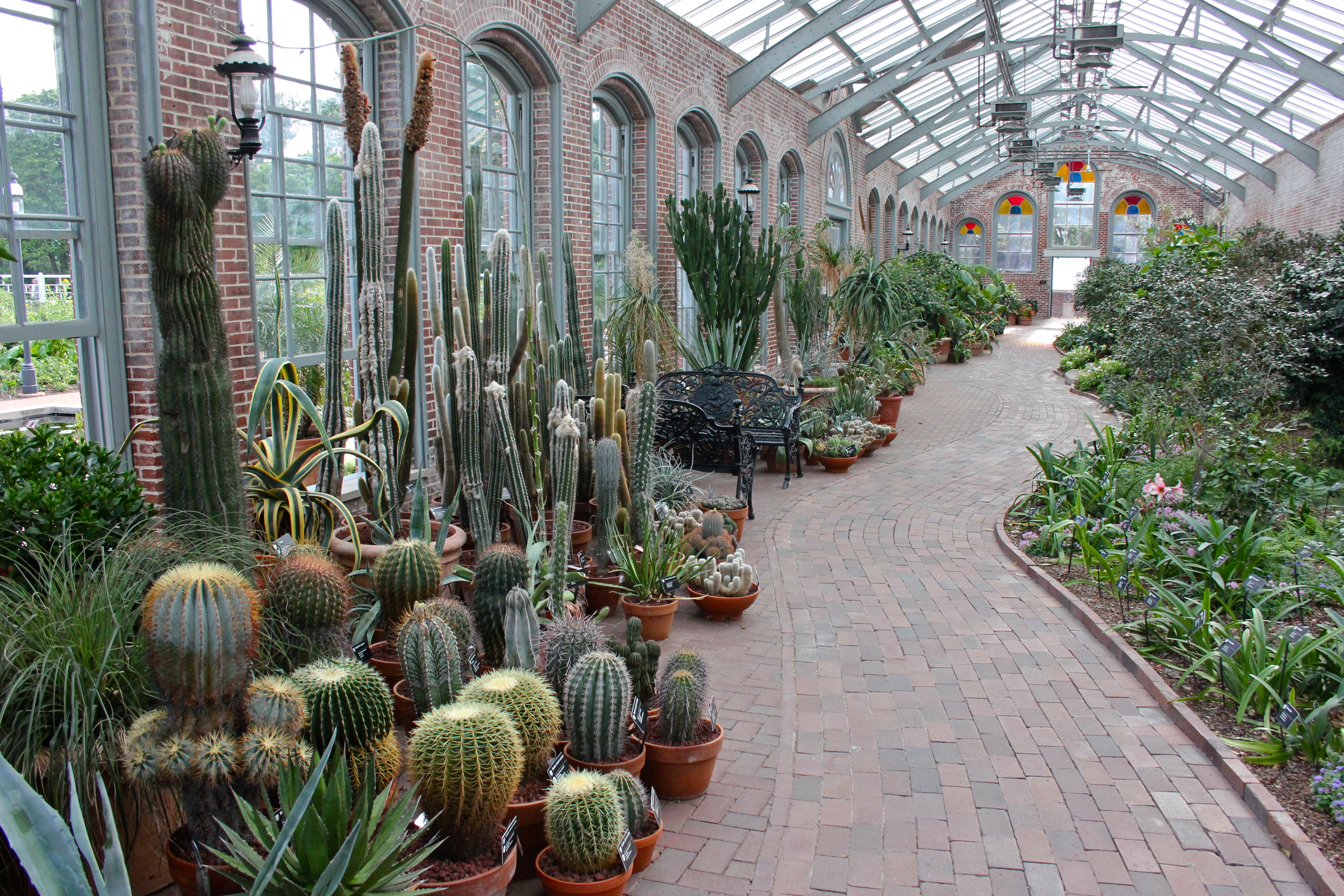 Linnean Semi-Arid House